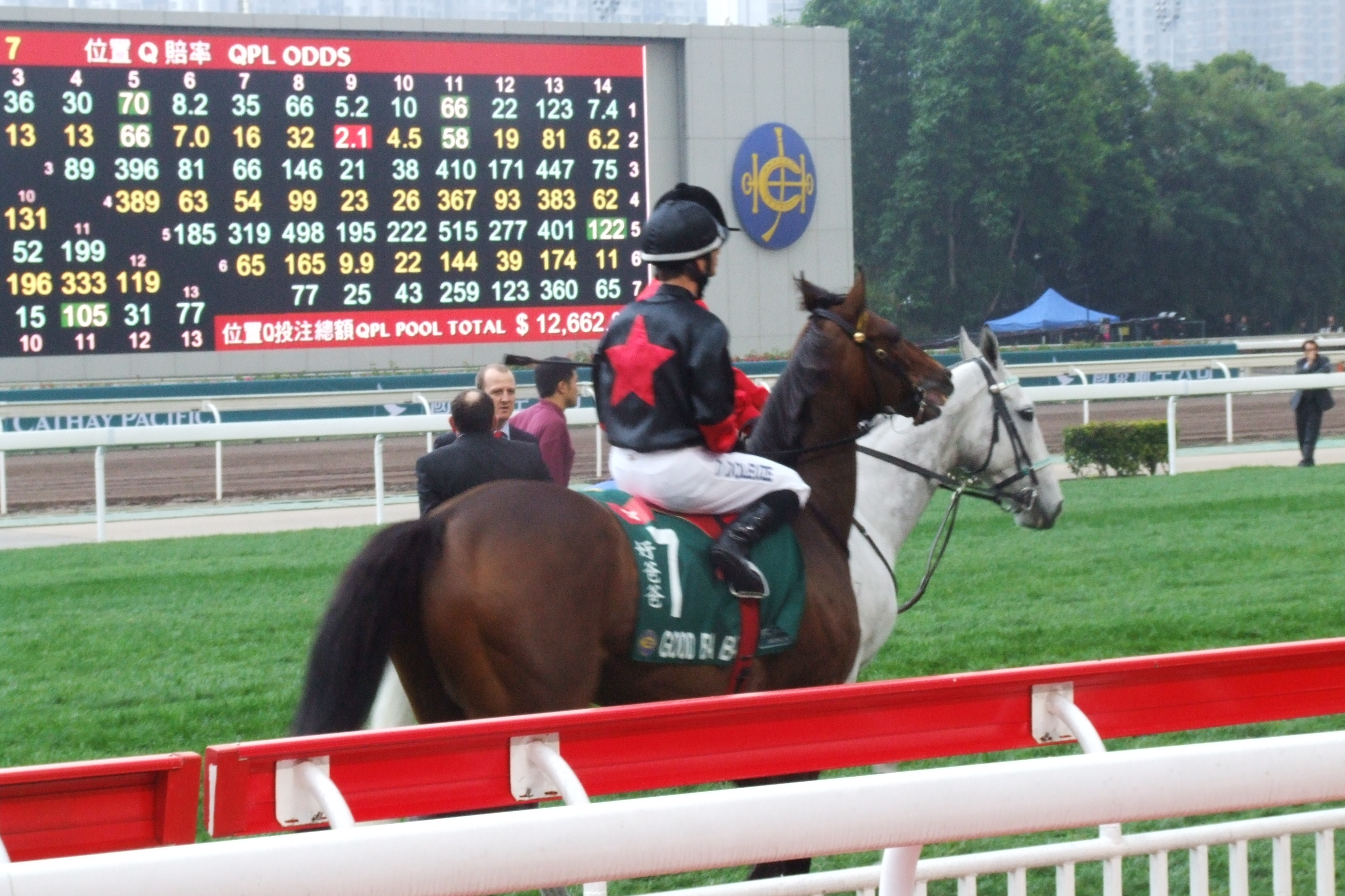 Good Ba Ba 中文（香港）: 好爸爸